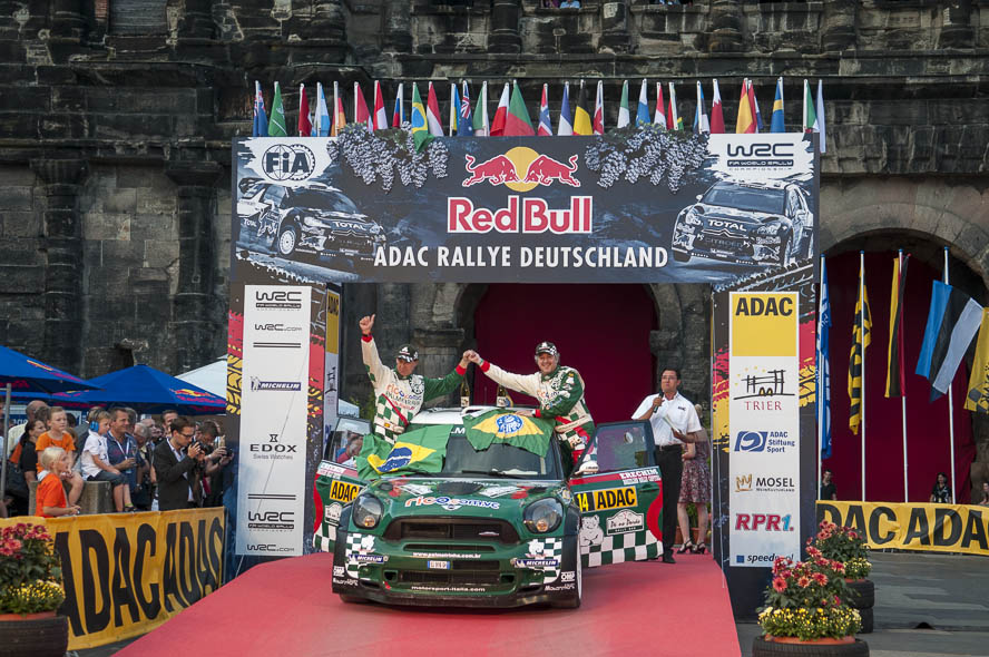 Rally Germany 2012 ADAC Rallye Deutschland,Ceremonial Start,Edu Paula,Mini John Cooper Works WRC,Motorsport,Paulo Nobre,Rally,Rallye,Rallye Deutschland,WRC,WRC Team Mini Portugal